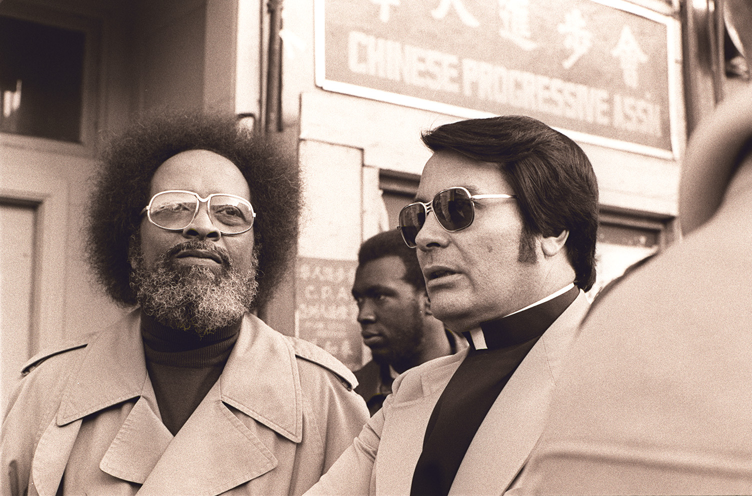 Reverend Jim Jones of People's Temple (r) with Reverend Cecil Williams of Glide Memorial Church in front of the International Hotel on Kearny and Jackson Streets in San Francisco at a protest to prevent eviction of the hotel's tenants.